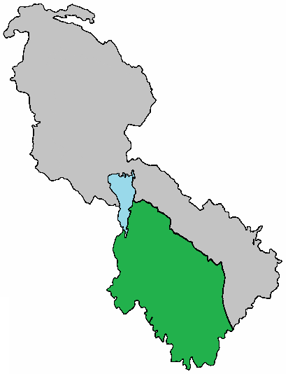 Boundary of the tuath of Muintir Eolais within present-day County Leitrim